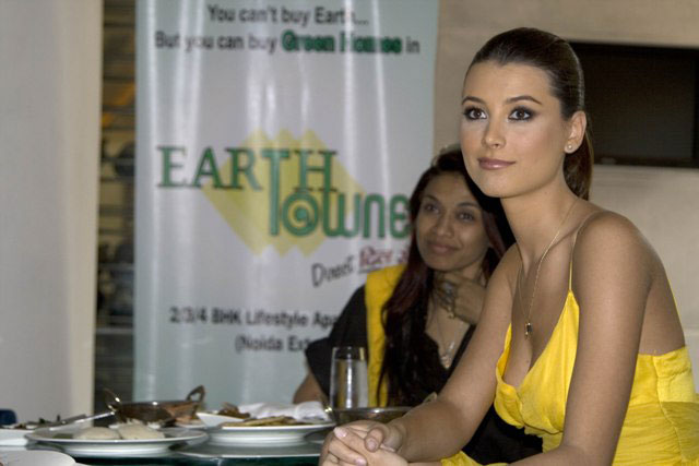 Miss Universe Visit to earth Infrastructures Limited.